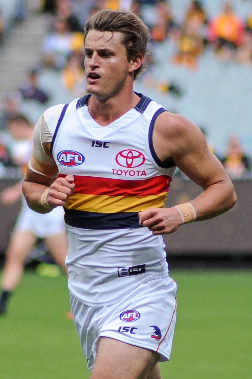 Matt Crouch during the AFL round two match between Hawthorn and Adelaide on 1 April 2017 at the Melbourne Cricket Ground in Melbourne, Victoria.